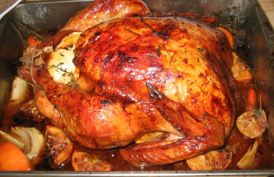 A Thanksgiving turkey that had been soaked for 10 hours in a brine of water, salt, brown sugar, cut and squeezed lemons and oranges, and chopped onion. Roasted in the oven in a roasting pan, for nearly 4 hours.